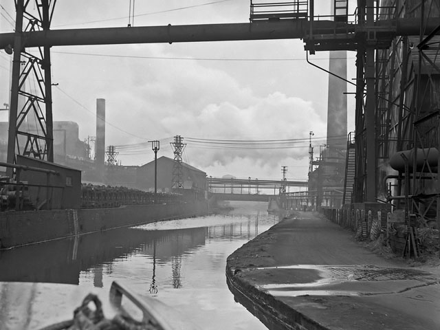 Shelton steelworks by canal, 1961 (a) Navigating through very interesting scenery, heading north on the Trent & Mersey Canal.